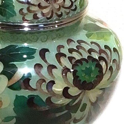 Japanese cloisonne type shōtai shippō (省胎七宝) uses translucent enamels applied through yūsen shippō, but the metal is then dissolved in nitric acid. Green incense burner with chrysanthemum flower motif, Shōwa era, made by Kato Kōzo. Ando Cloisonné Museum, Nagoya.